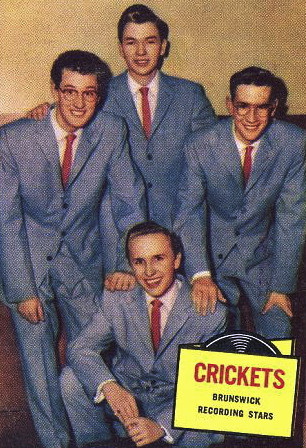 Trading card photo of The Crickets. In 1957, Topps gum cards issued a series of movie stars, television stars and recording stars. They were part of their recording stars cards.